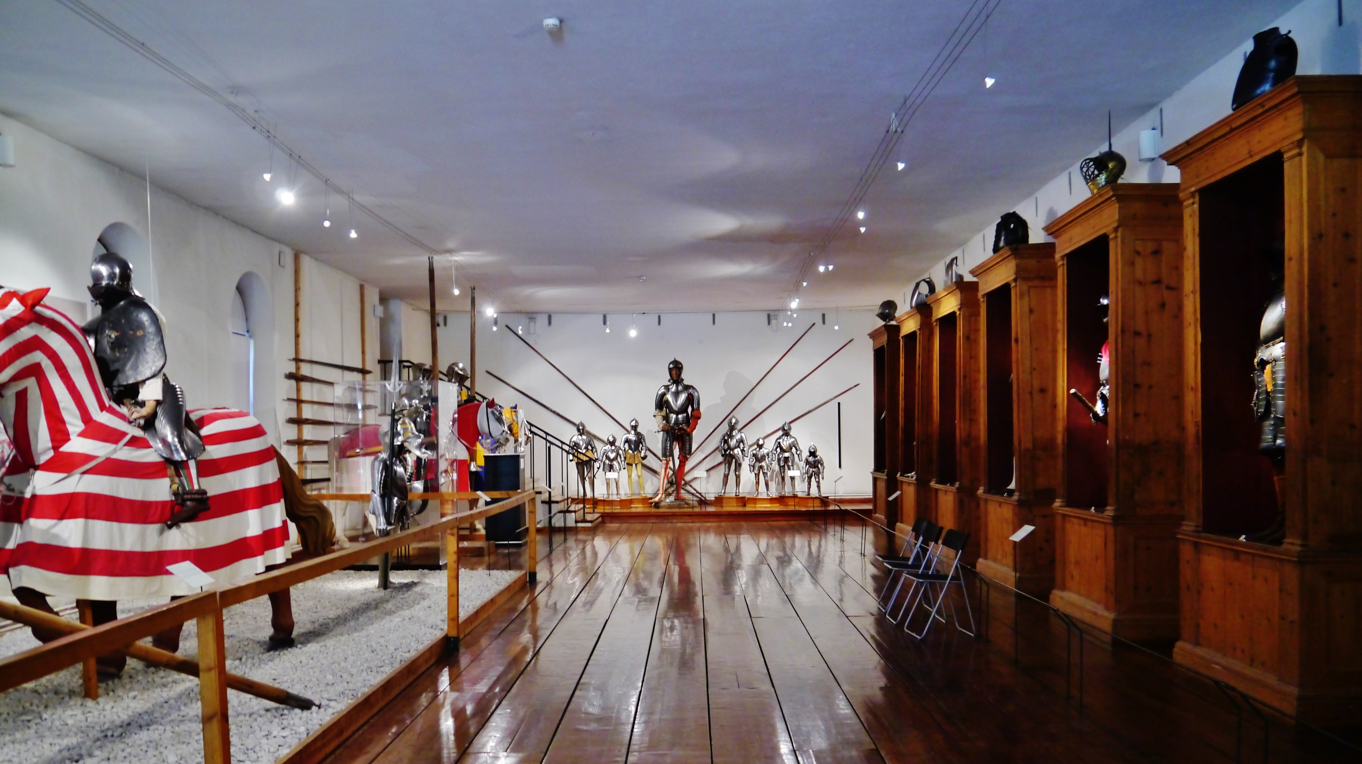 Armoury at Ambras Castle, Innsbruck, Tyrol, Austria